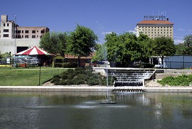 River walk License on Flickr: All rights reserved Flickr tags: San Angelo, Texas, USA, Concho River